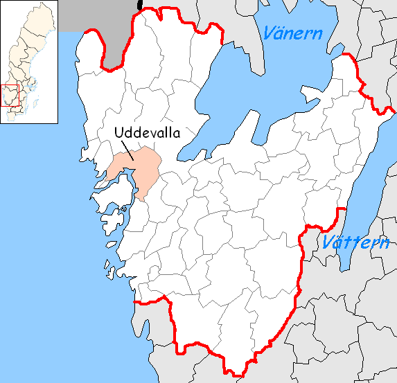 Uddevalla Municipality in Västra Götaland County Designed by me. Mere outlines are a PD source from